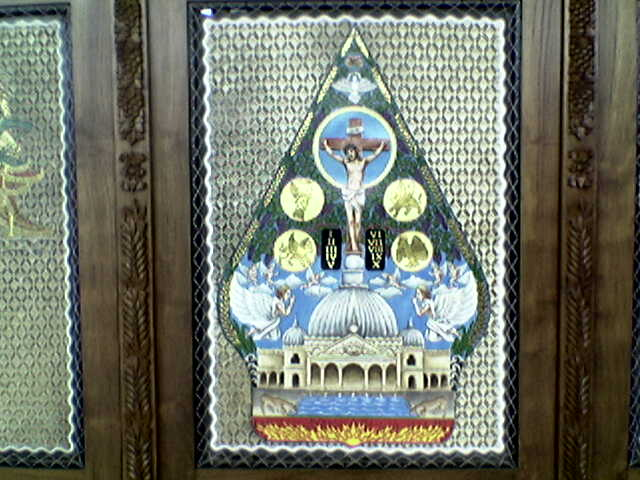 A Catholic version of the Javanese shadow play at a church in Surakarta.